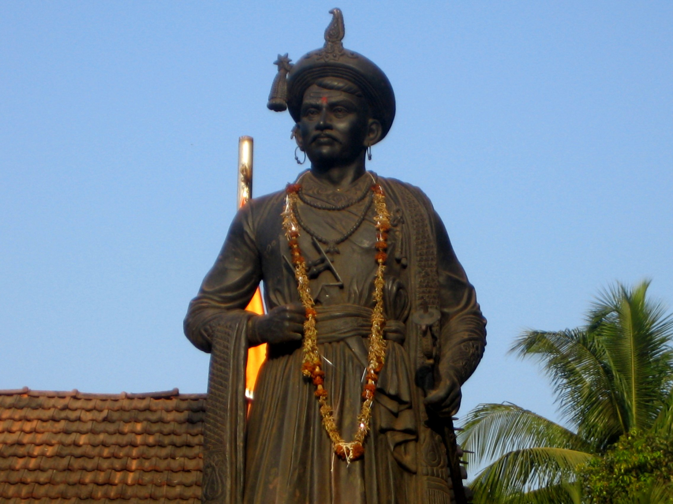 Statue of Peshwa Balaji Vishwanath at Shrivardhan